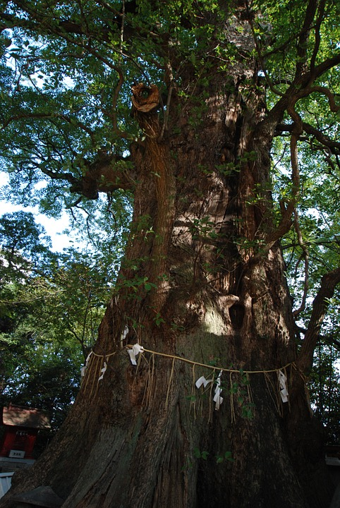 Wood camphor tree